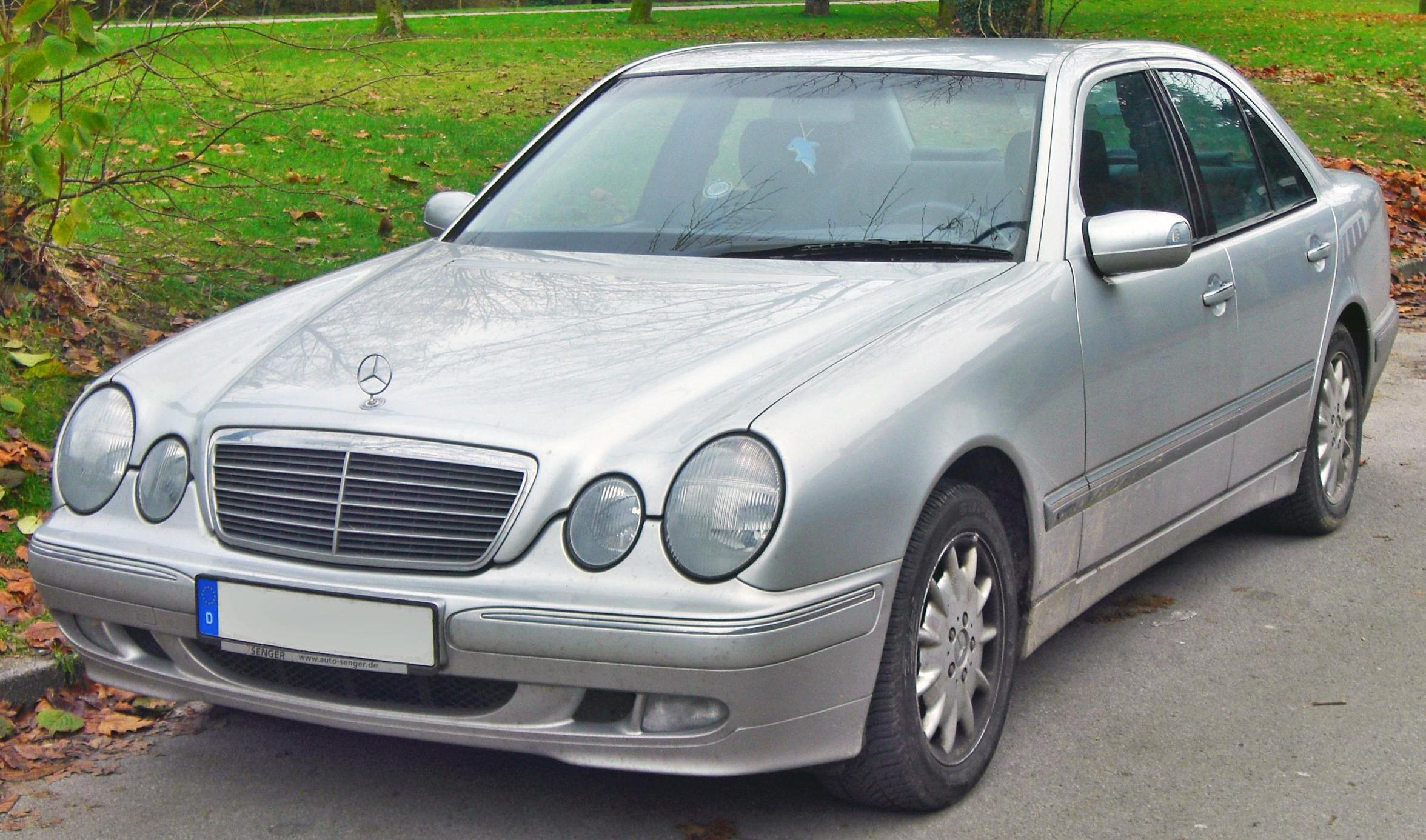 Description: Mercedes E 270 CDI (W210) Source: Matthias Other Version(s)